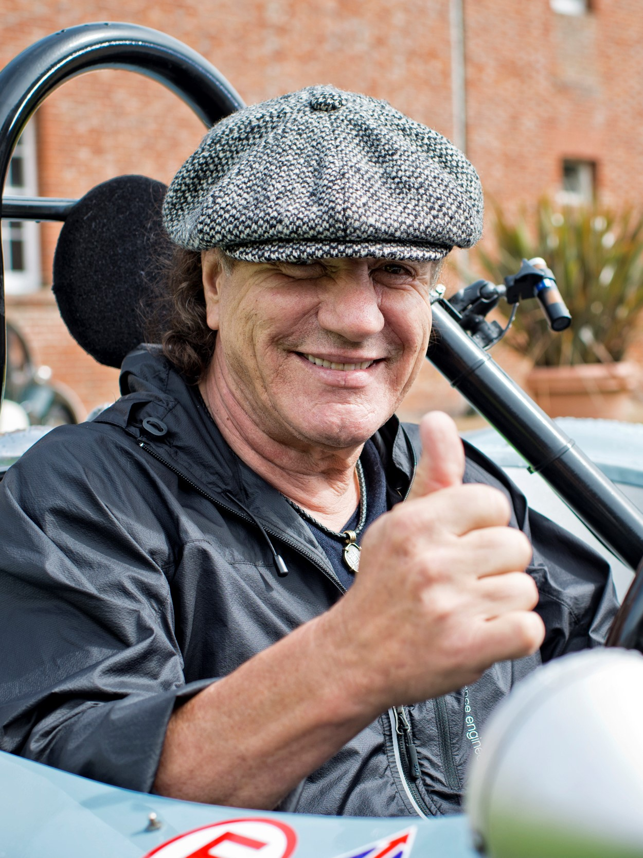 A cropped version of File:Jaguar's 'Perfect Ten' - Most important and iconic Jaguar cars (15157404505).jpg